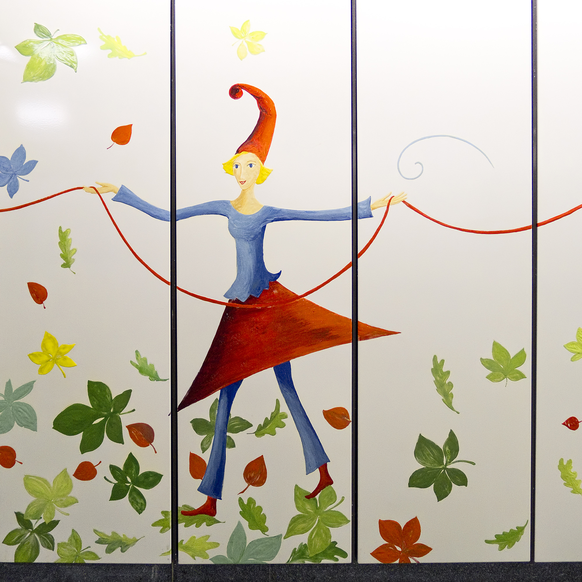 Underground station Bahnhof Wien Praterstern in Vienna 2